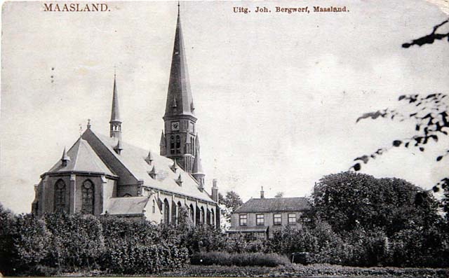 Maria Magdalenakerk (Maasland)